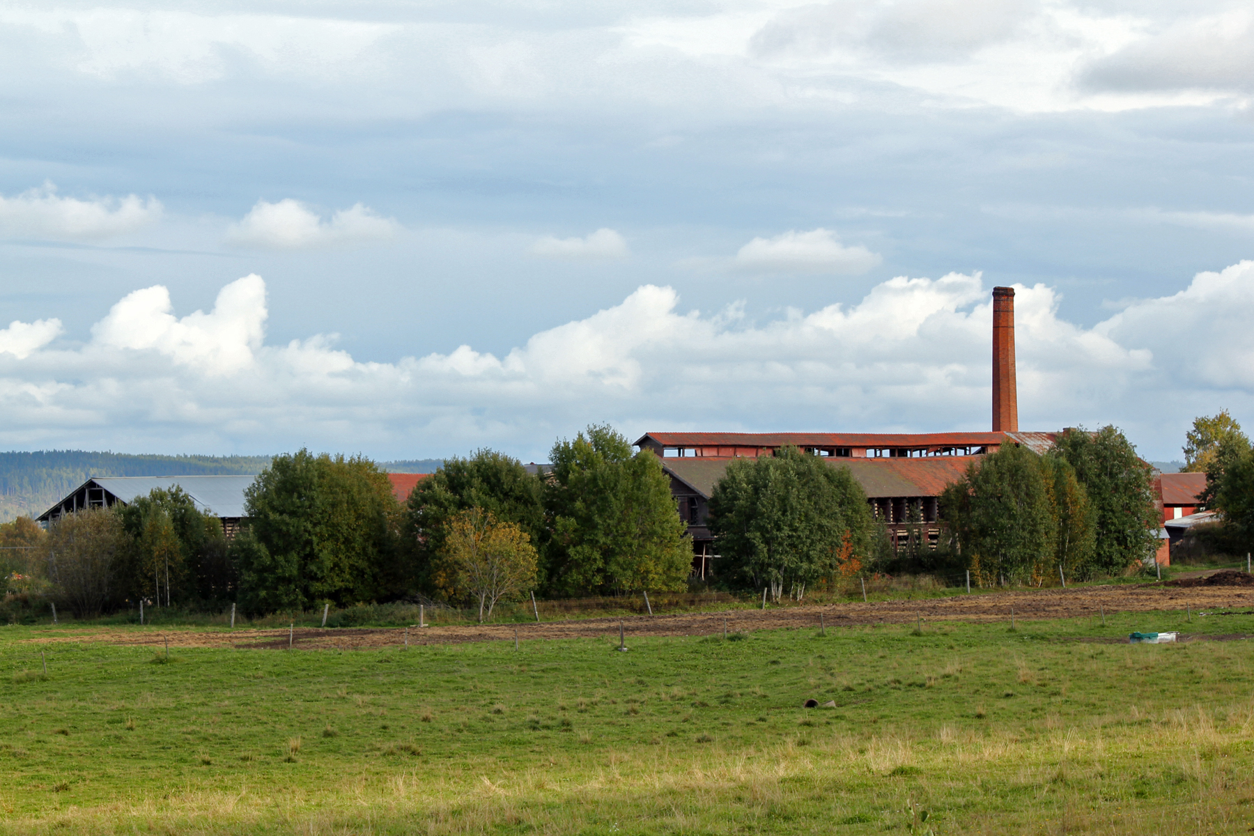 Bältarbo brickyard, Hedemora Municipality, Sweden